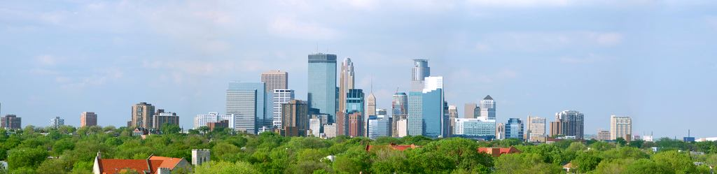 Minneapolis skyline as seen from the roof of 711 West Lake Street. Image is modified.